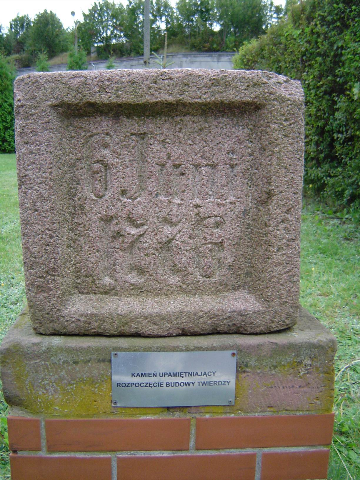 Commemorative stone with date of the building of the fortess.